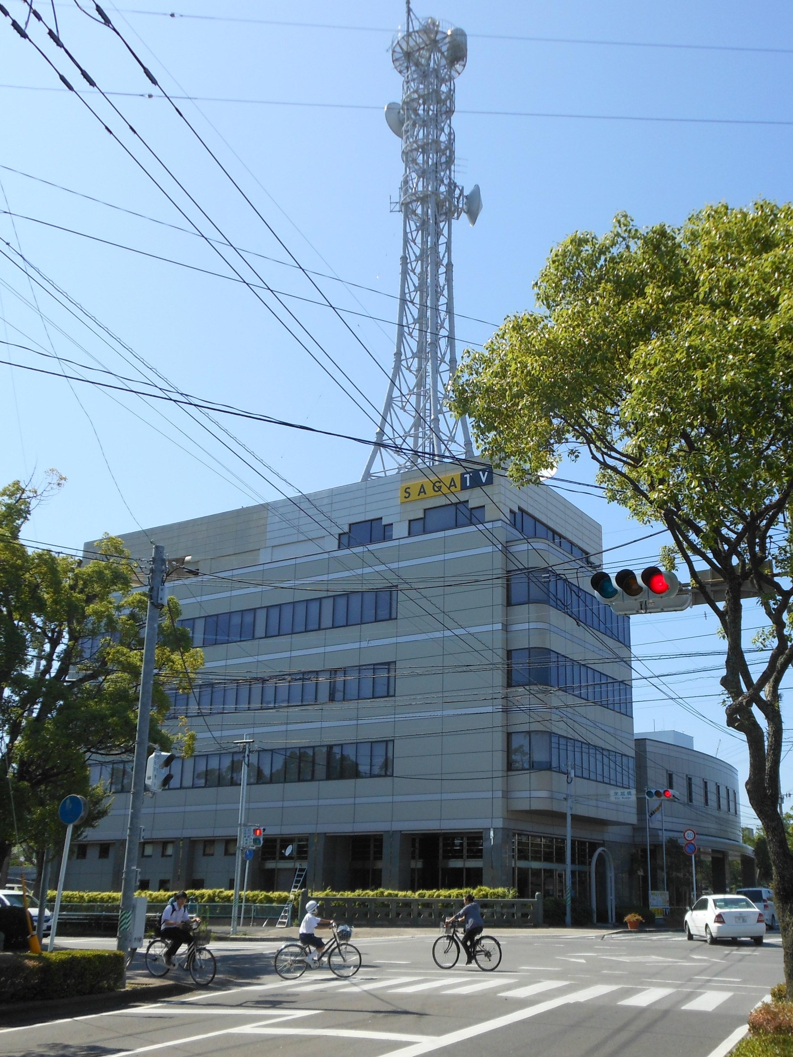 Saga TV (JOSH-TV, FNN/FNS - Saga, Japan), in 2015.